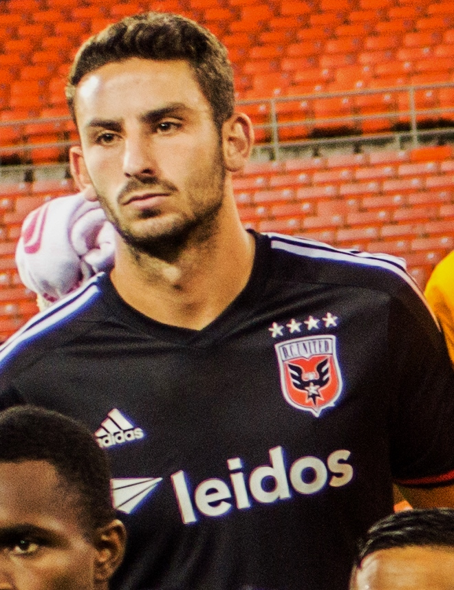 2015/16 Scotiabank CONCACAF Champions League (DC United vs. Deportivo Arabe Unido) (Sept. 2015) Steve Birnbaum